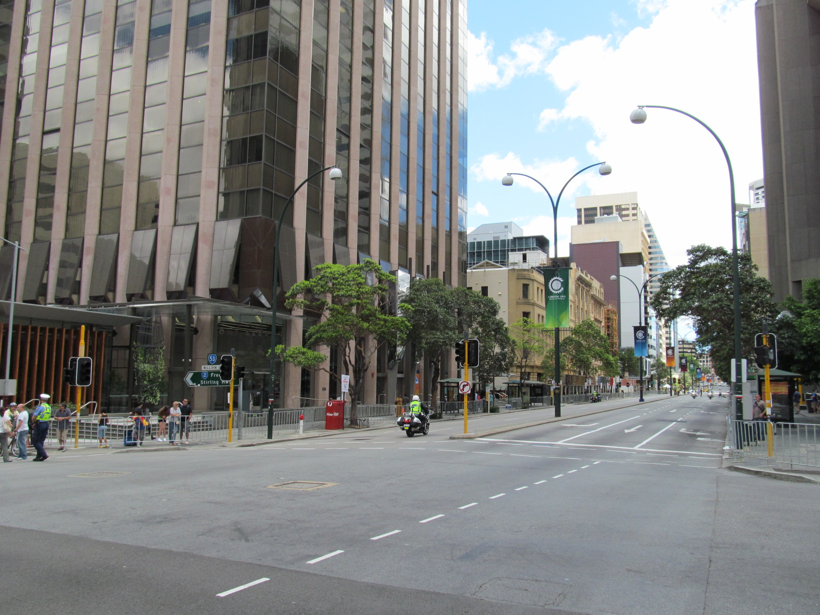 CHOGM Core Security Area in the downtown financial district of Perth, Western Australia, 28 October 2011, as described under s. 6 of the Commonwealth Heads of Government Meeting (Special Powers) Act 2011.